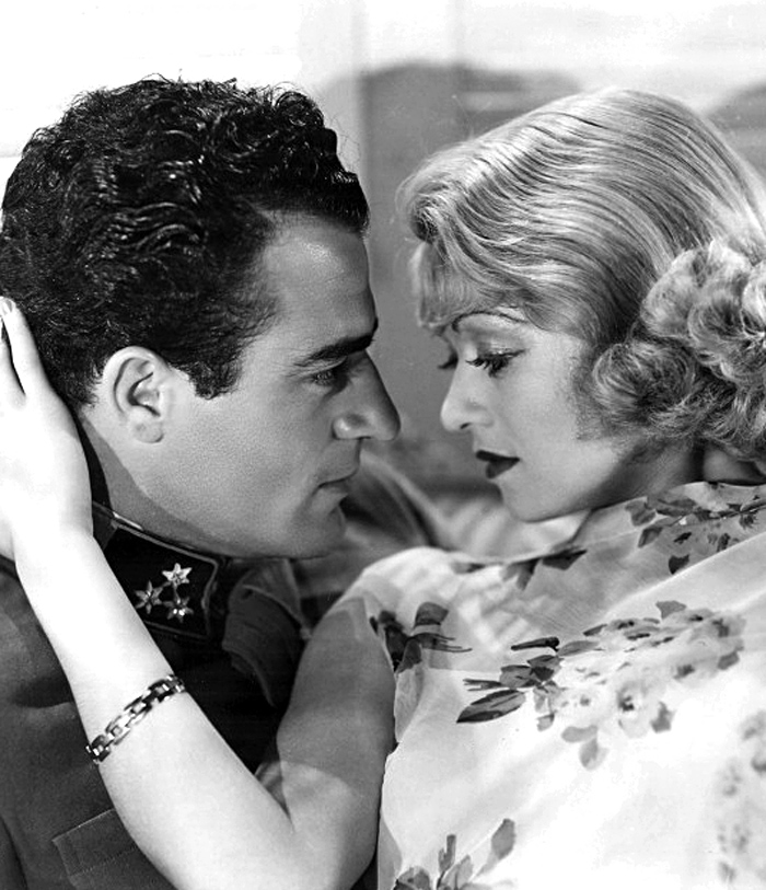 Publicity photo of Gilbert Roland and Constance Bennett in After Tonight, 1933